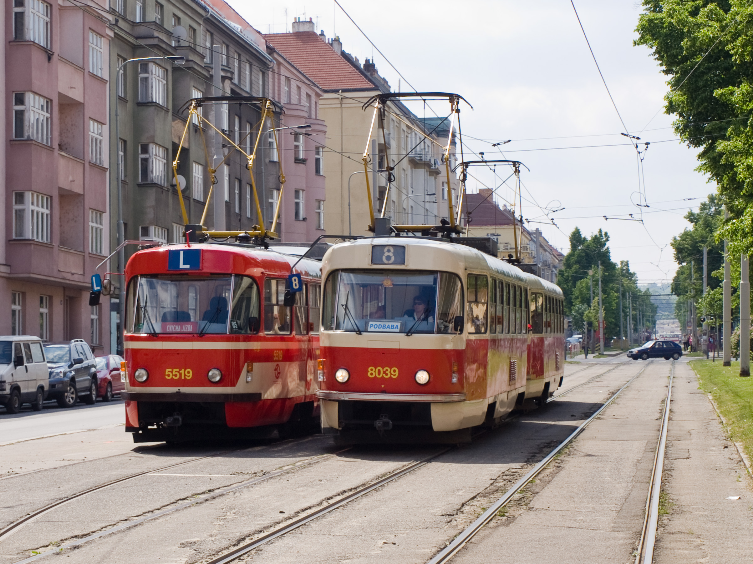 Learning tram near Podbaba tram loop, Prague